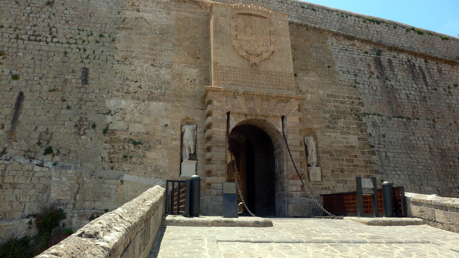 Gate in the walls that gives access to the old town (Dalt Vila) of Ibiza (Portal de ses Taules). XVI century.